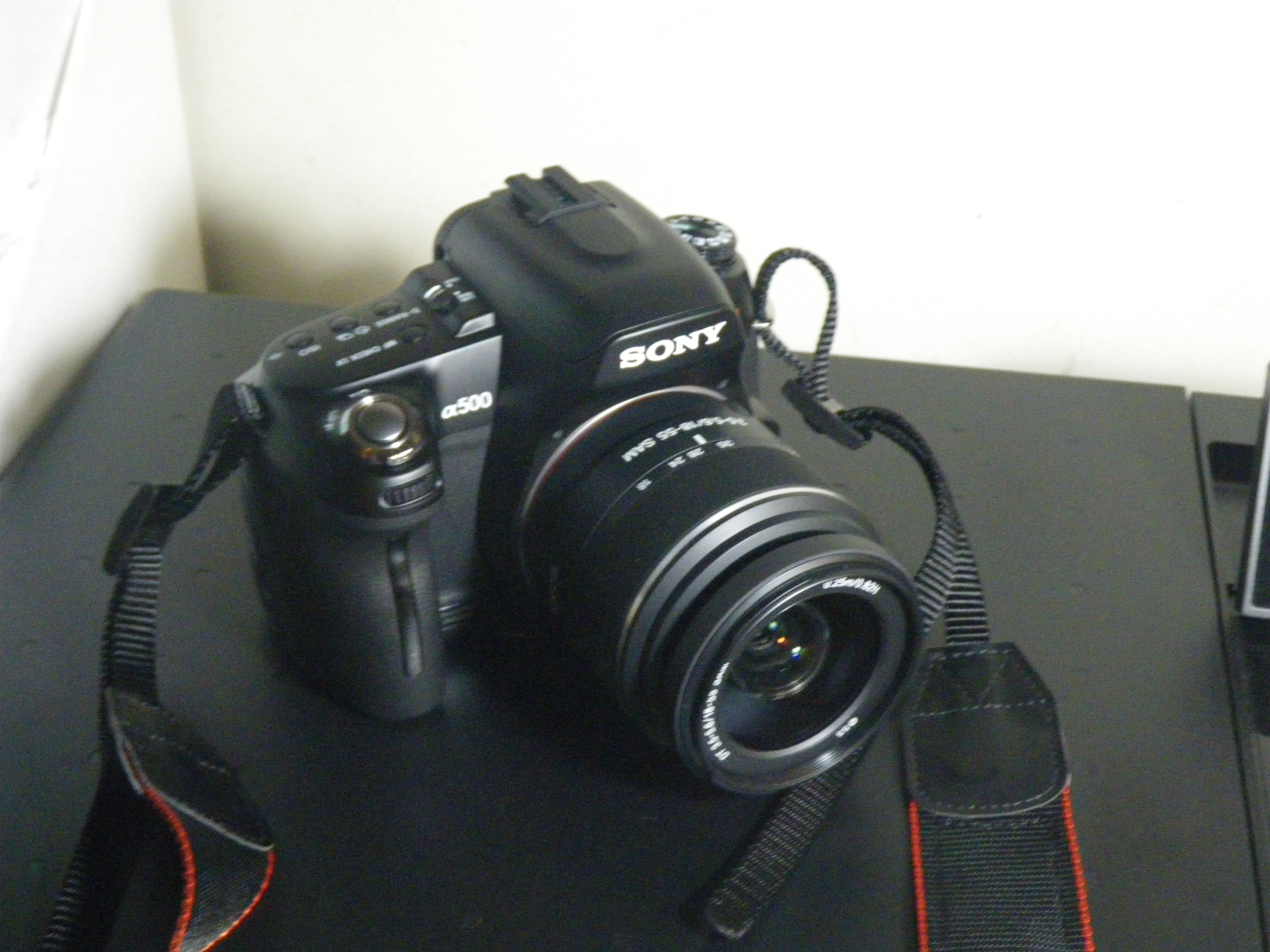 A Sony α 500 DSLR camera